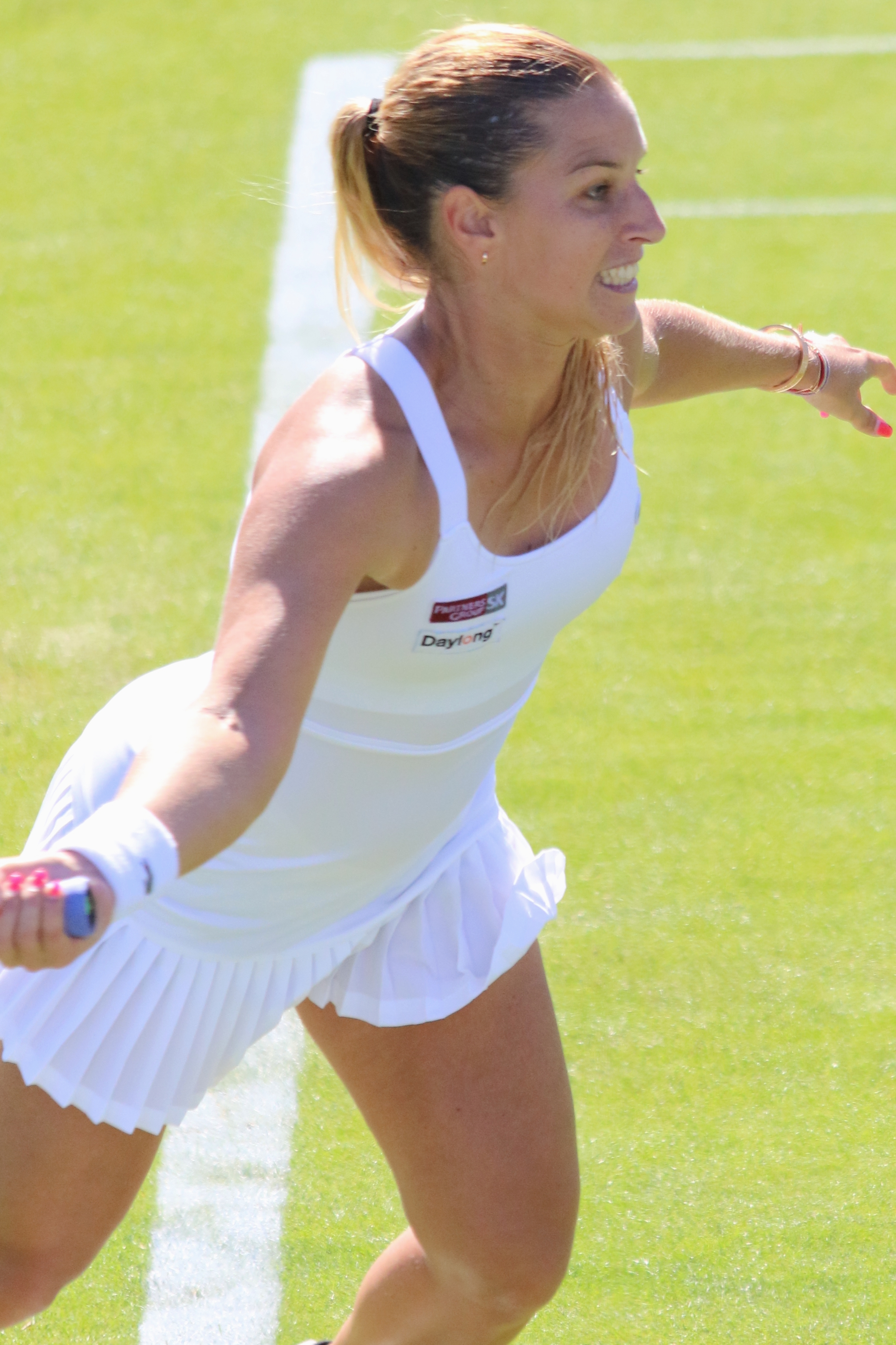 Cibulkova at the 2017 Aegon International Eastbourne.